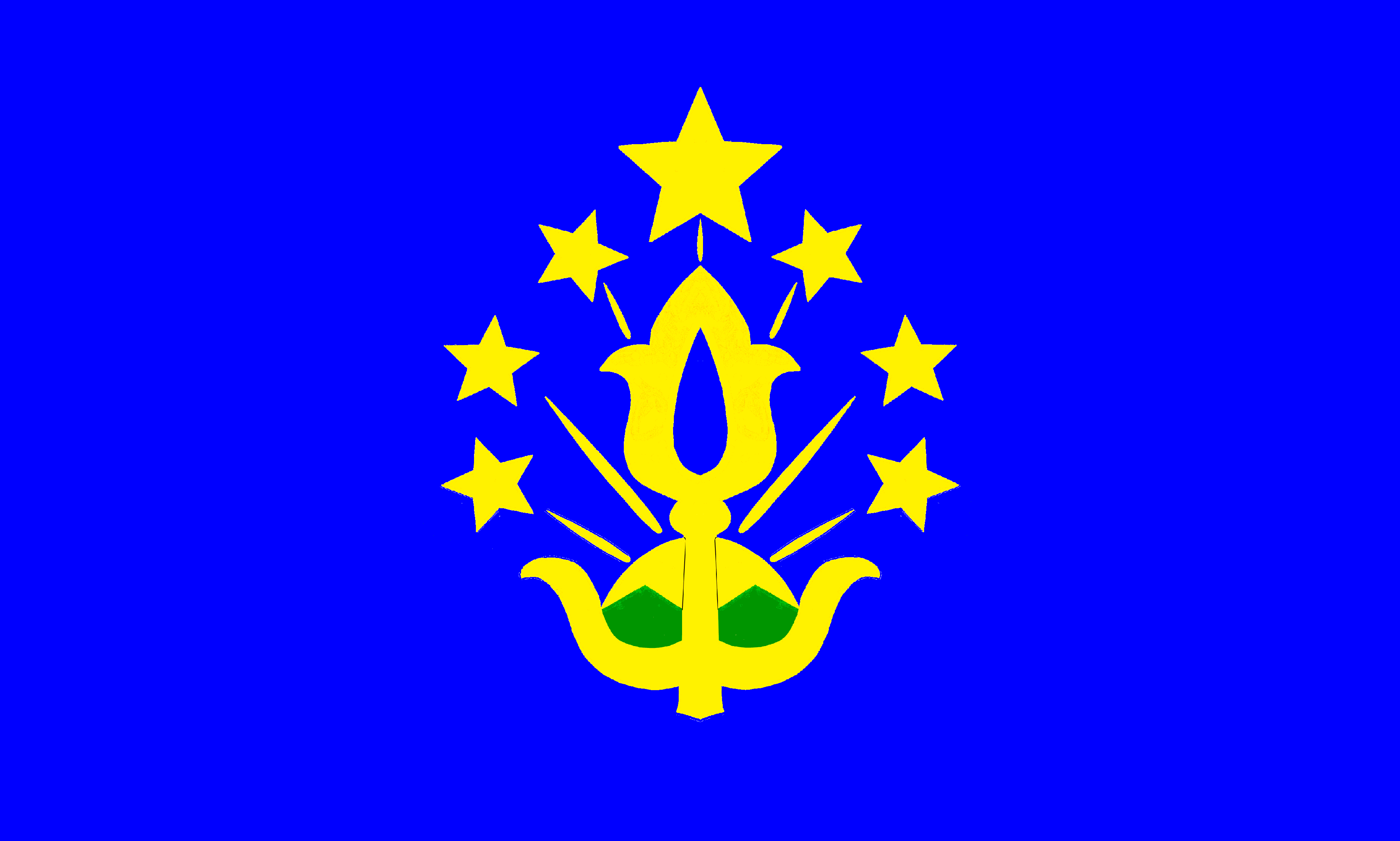 Flag of Shovgenovsky rayon (Adygeya)